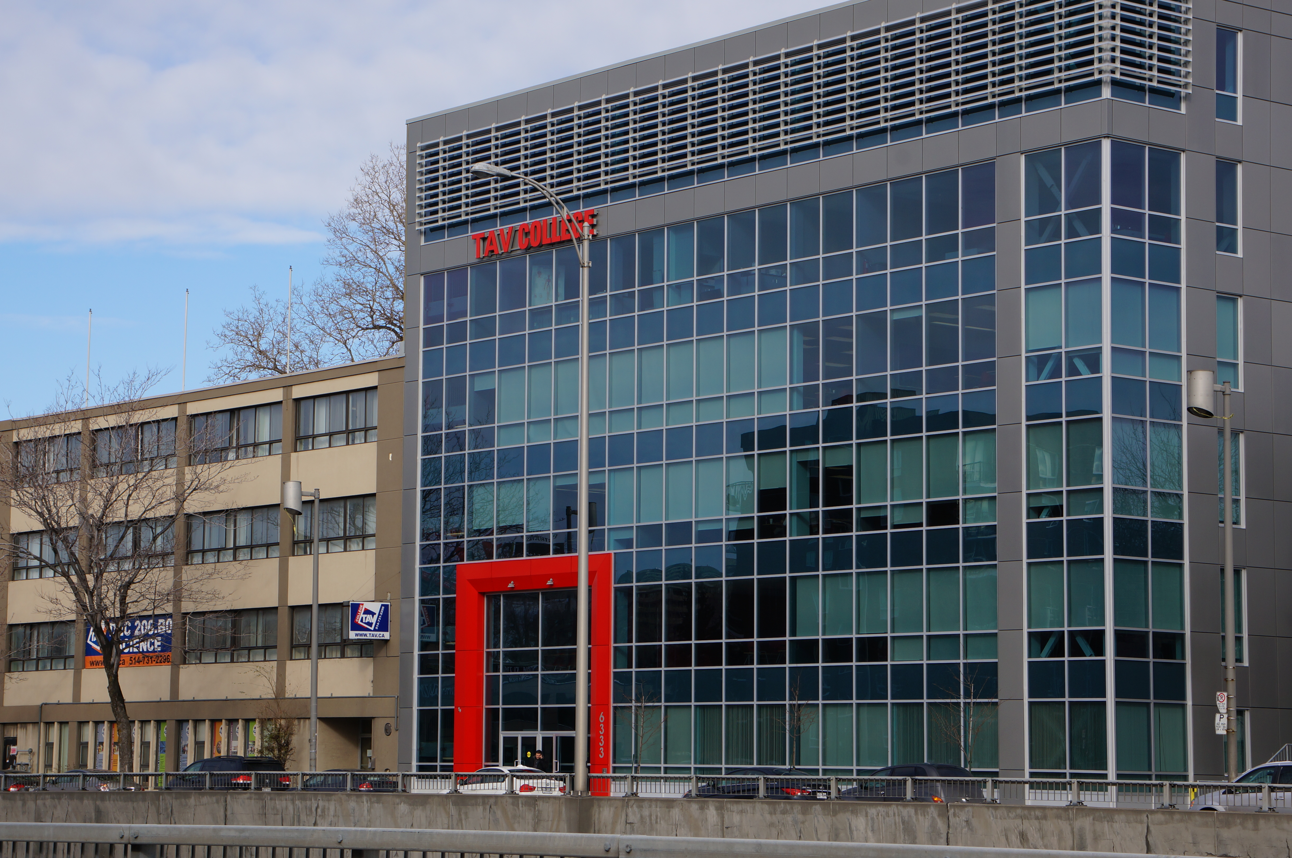 TAV College: exterior view of the "A" building.